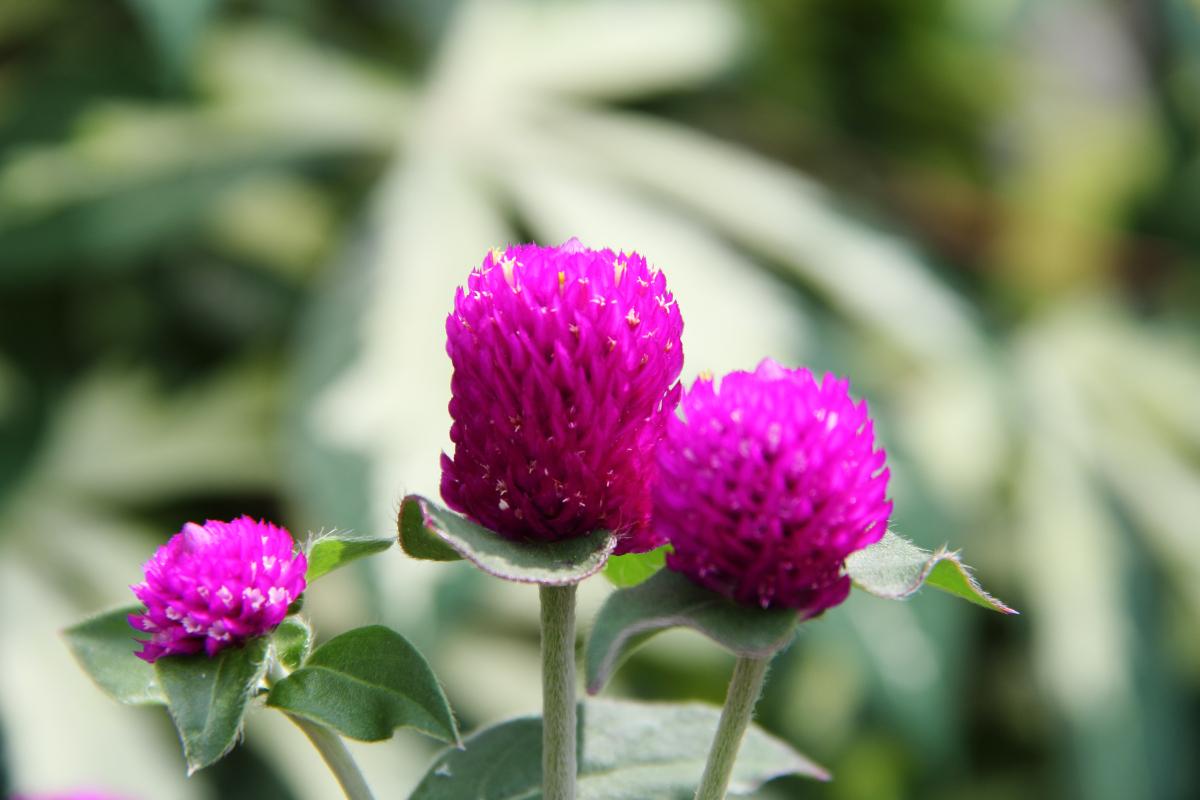 Globe Amaranth, Bachelor Button